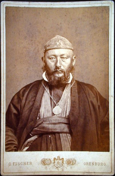 Bashkir gentleman wearing the medal that designates him as the Village Elder